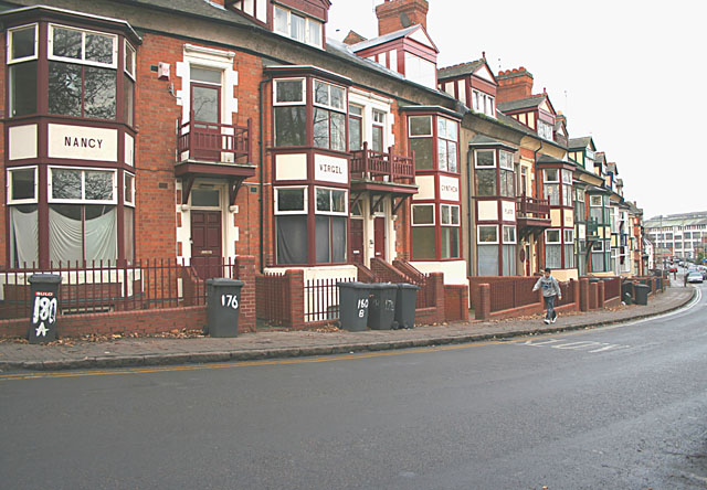 Mere Road, Spinney Hills, Leicester. Opposite the west entrance to Spinney Hill Park. Every one of this row of 1890's terraced houses, between Berners Street and Buxton Street, has a name ranging from the familiar to the classical. for a description of the conservation area.